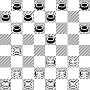 Tabia opening Gibelnoe nachalo in russian checkers